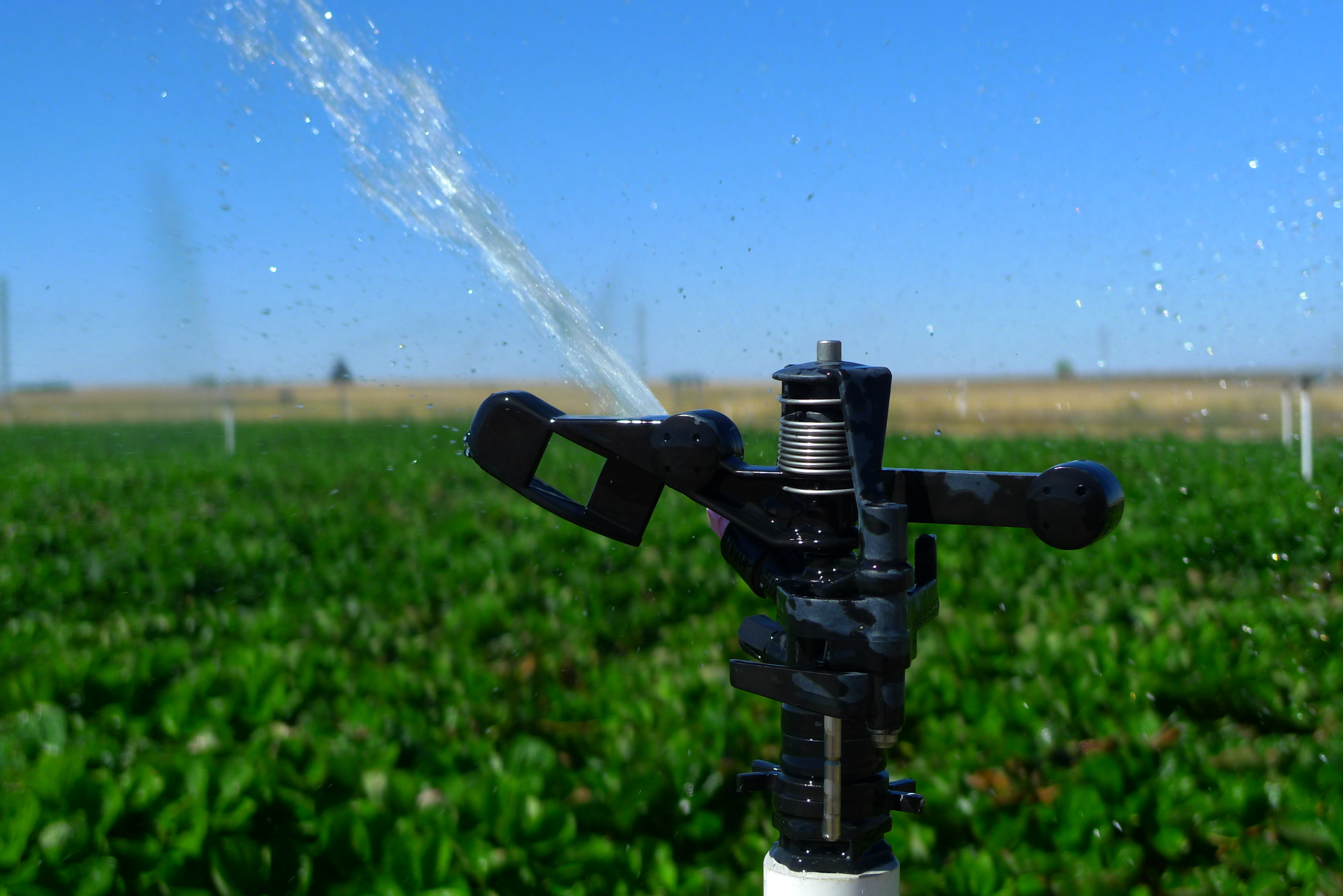 sprinkler in the Adaja Irrigation dictrict. Ávila. Spain